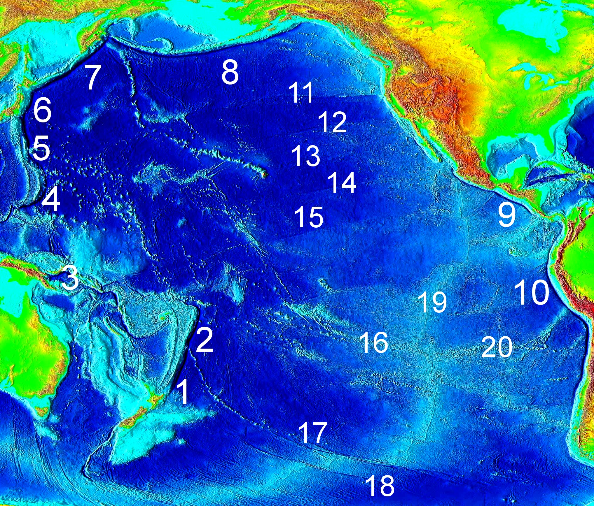 Pacific trenches (a semi-loop) 1. Kermadec 2. Tonga 3. Bougainville 4. Mariana 5. Izu-Ogasawara 6. Japan 7. Kuril–Kamchatka 8. Aleutian 9. Middle America 10. Peru-Chile Fracture zones (nearly horizontal lines) 11. Mendocino 12. Murray 13. Molokai 14. Clarion 15. Clipperton 16. Challenger 17. Eltanin 18. Udintsev 19. East Pacific Rise (S-shaped) 20. Nazca Ridge